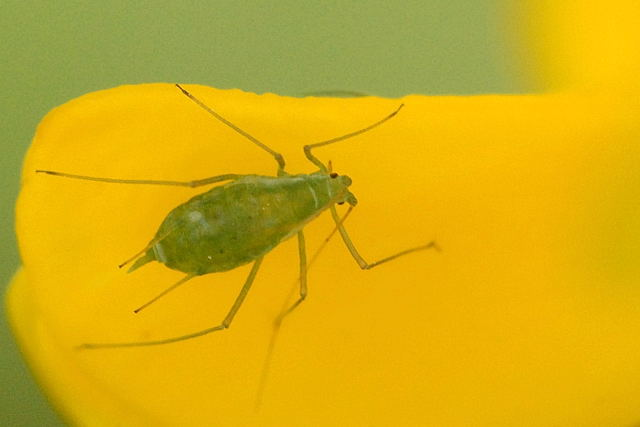 Aulacorthum solani from Commanster, Belgian High Ardennes .